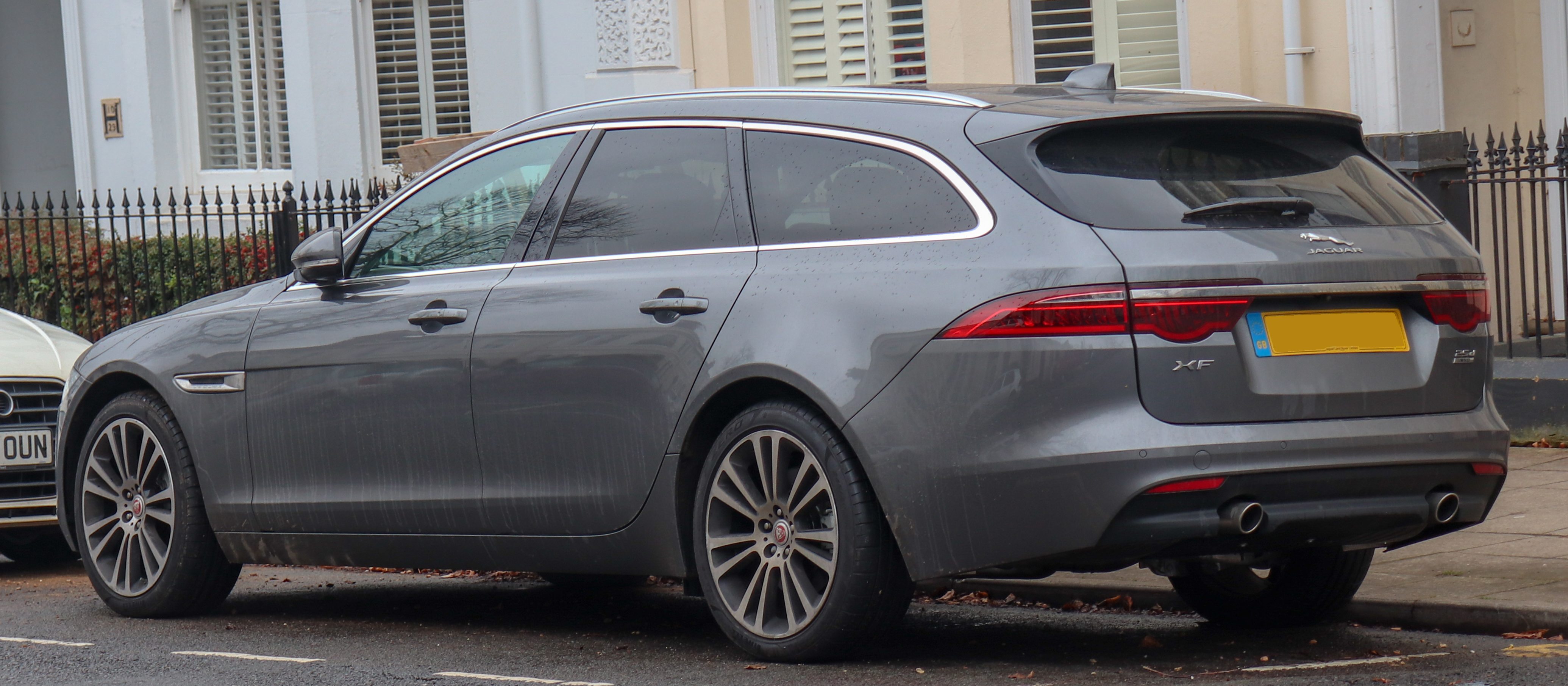 2018 Jaguar XF Portfolio Diesel AWD Automatic 2.0 Rear Taken in Leamington Spa